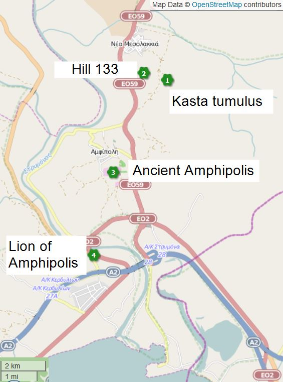 Kasta tumulus, Amphipolis and Lion of Amphipolis location map (For the edition in Greek see File:Kasta tumulus and Lion of Amphipolis location map gr.jpg, for a dynamic map, see in voy:el:Τύμβος Καστά